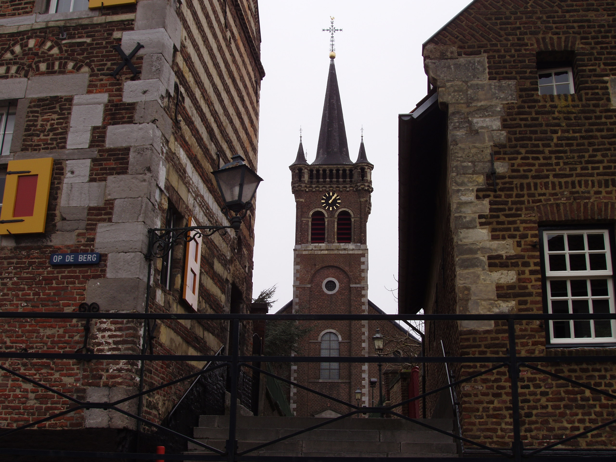 Looking from the street Op de Berg to the church, Elsloo, Limburg, Netherlands